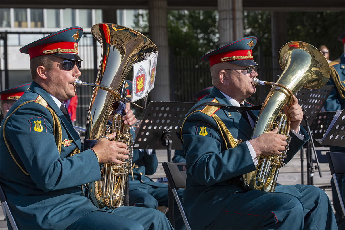 Orchestra of the Military University of the Ministry of Defense of RF.